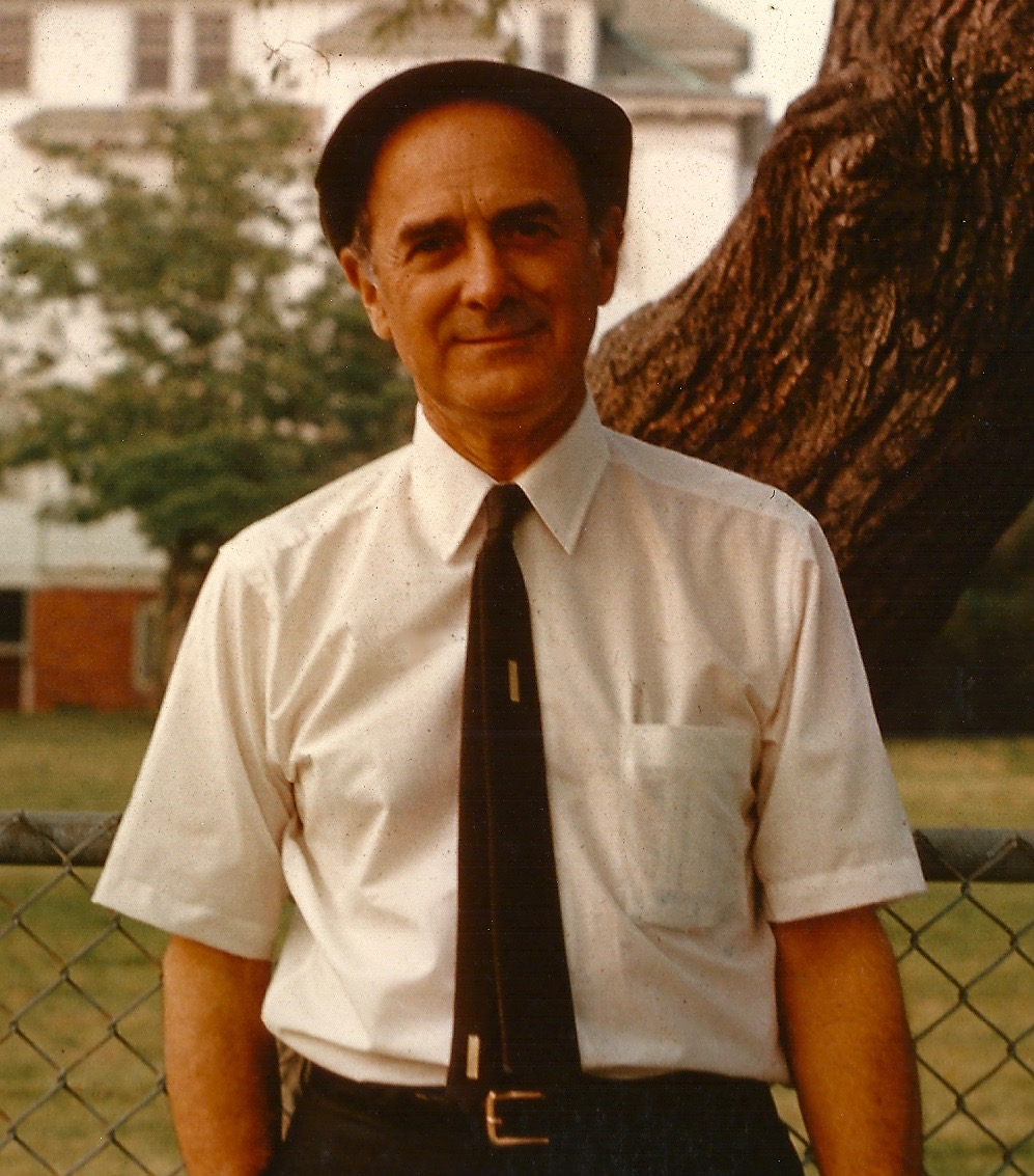 Alison Howe Price, M.D., son of Franklin Haines Price, Sr. (Chief Librarian of the Free Library of Philadelphia and recipient of the Philadelphia Award, 1951) and the Lady Alice Henrietta Howe, graduated from Radnor High School, Pennsylvania in 1930, Swarthmore College, and Jefferson Medical College, Philadelphia. He passed the State Board Medical Examinations held July 9-13 1940. He collaborated with William H. Rorer, Inc. circa 1948 until 1959, jointly producing many pharmaceuticals including Comfortine, Ascriptin, and Maalox which would become the world's best selling antacid. He purchased the Garet Garrett (1878-1954) home in Marshallville, New Jersey in 1958 and resided there with his wife Linda Ann Bricker and four children (Franklin, Lowell, Alice and Robert). He had three additional children from his first marriage (1940) to Lucile N. Ivey (Alison, Neal and Robin). In June of 1981 he died of heart failure at the age of 68. He is buried in the family plot at Woodlands Cemetery in Philadelphia.